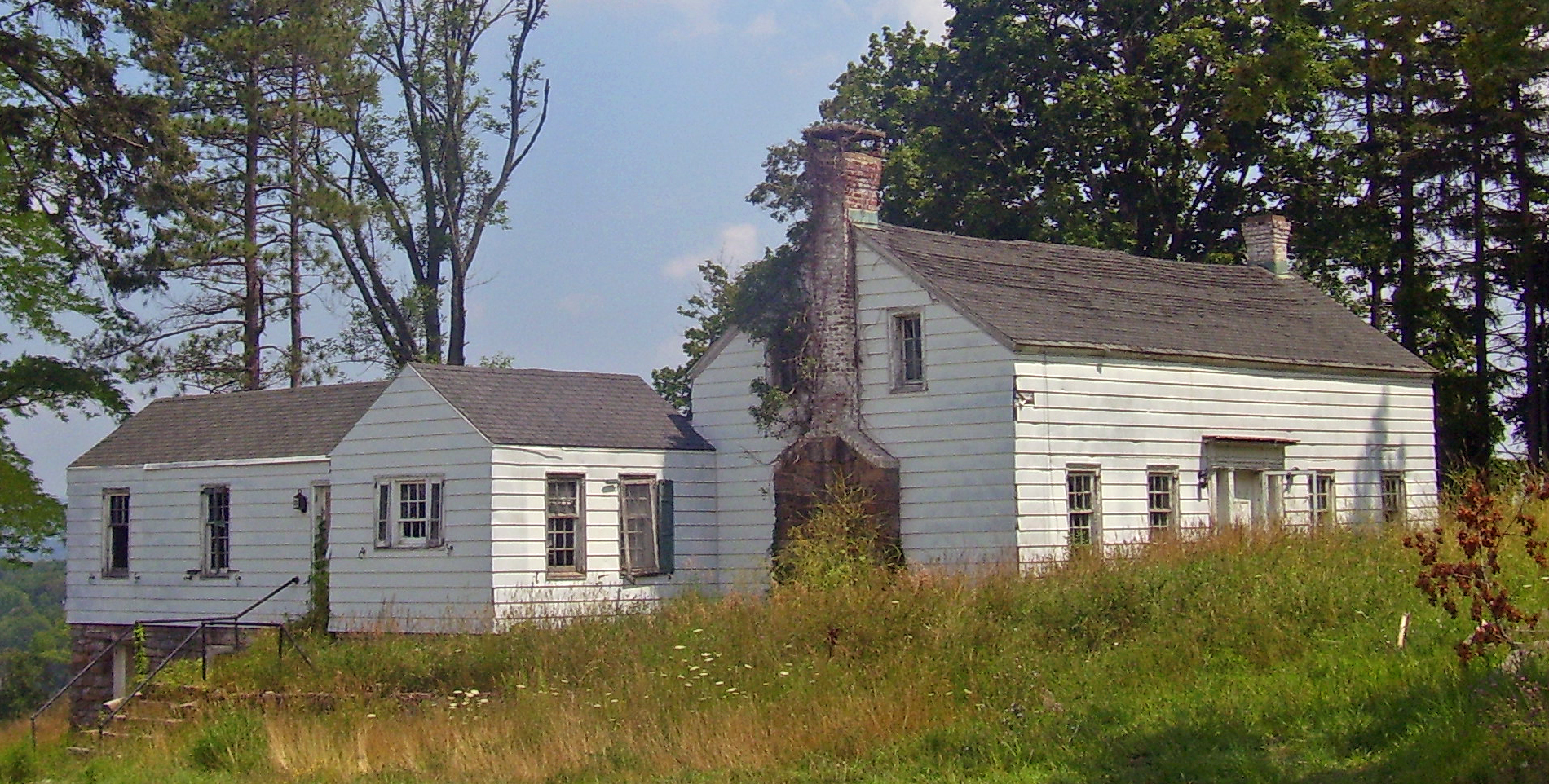 Former Checkerboard Inn, Monroe, NY, USA